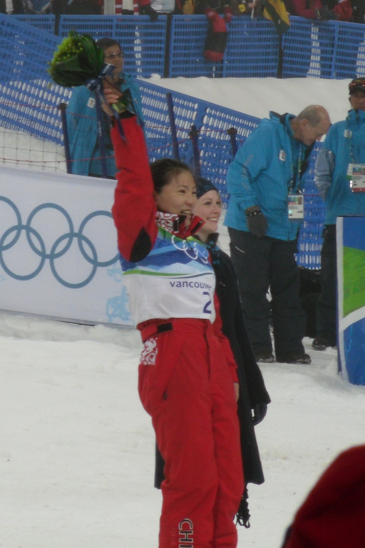 The flower ceremony for the Women's aerialists at the 2010 Winter Olympics. From left: Li Nina (silver), Lydia Lassila (gold) and Guo Xinxin (bronze).